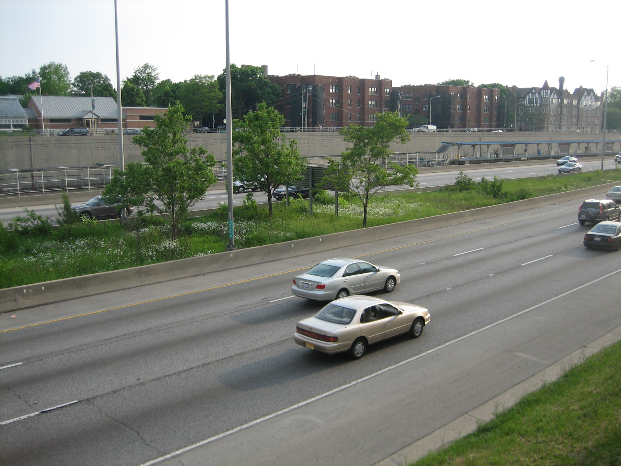 Interstate 290 in Oak Park, Illinois, near the Oak Park CTA Blue Line Station.